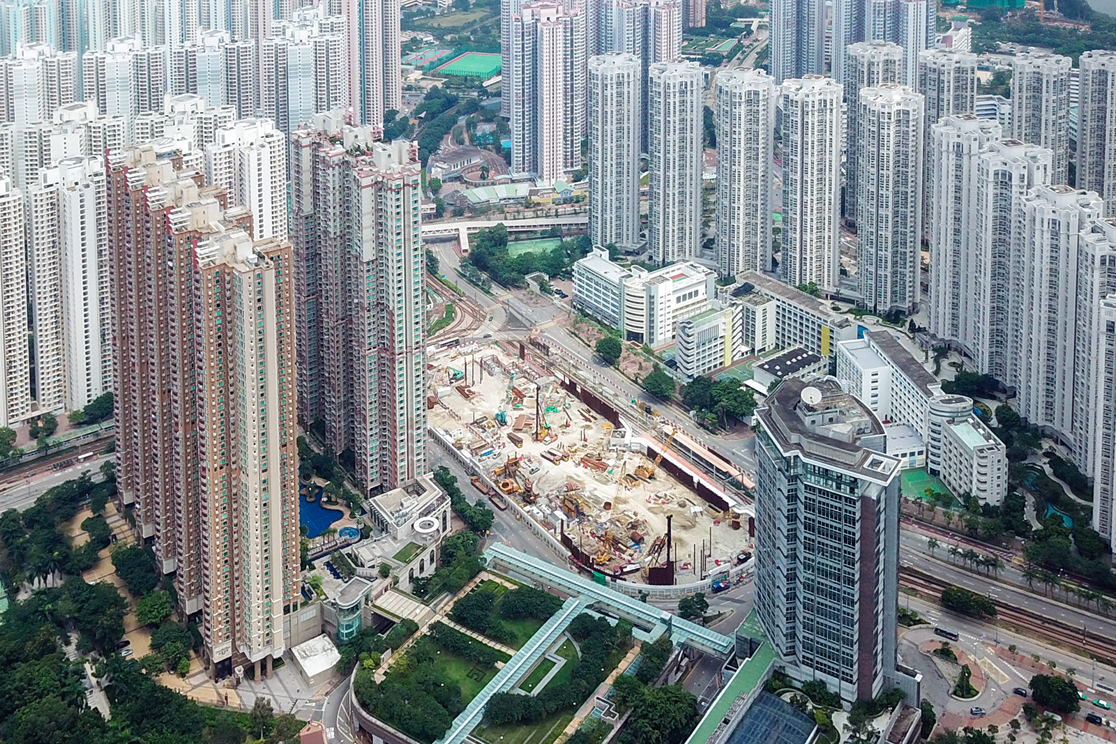 Tin Wing Stop Property Development Site